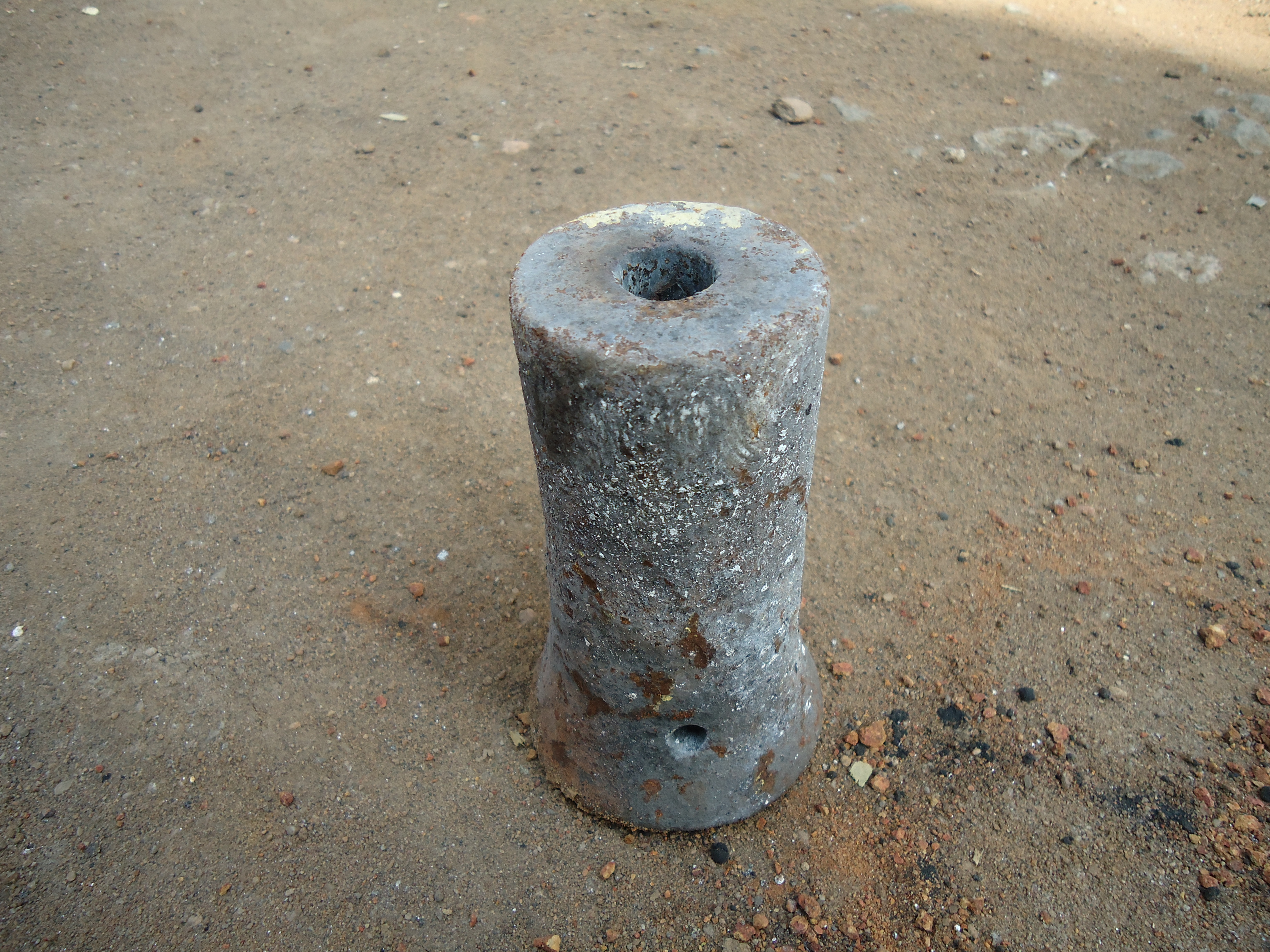 A barrel cracker with hole at guruvayoor sree krishna temple